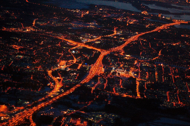 Espoo, Finland from air